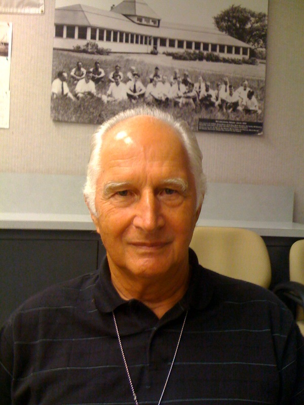 Photo of Herwig Kogelnick taken August 13, 2009 with the iphone of Stephen Wilkus. Taken in the Crawford Hill Round table conference room of Alcatel-Lucent Inc.